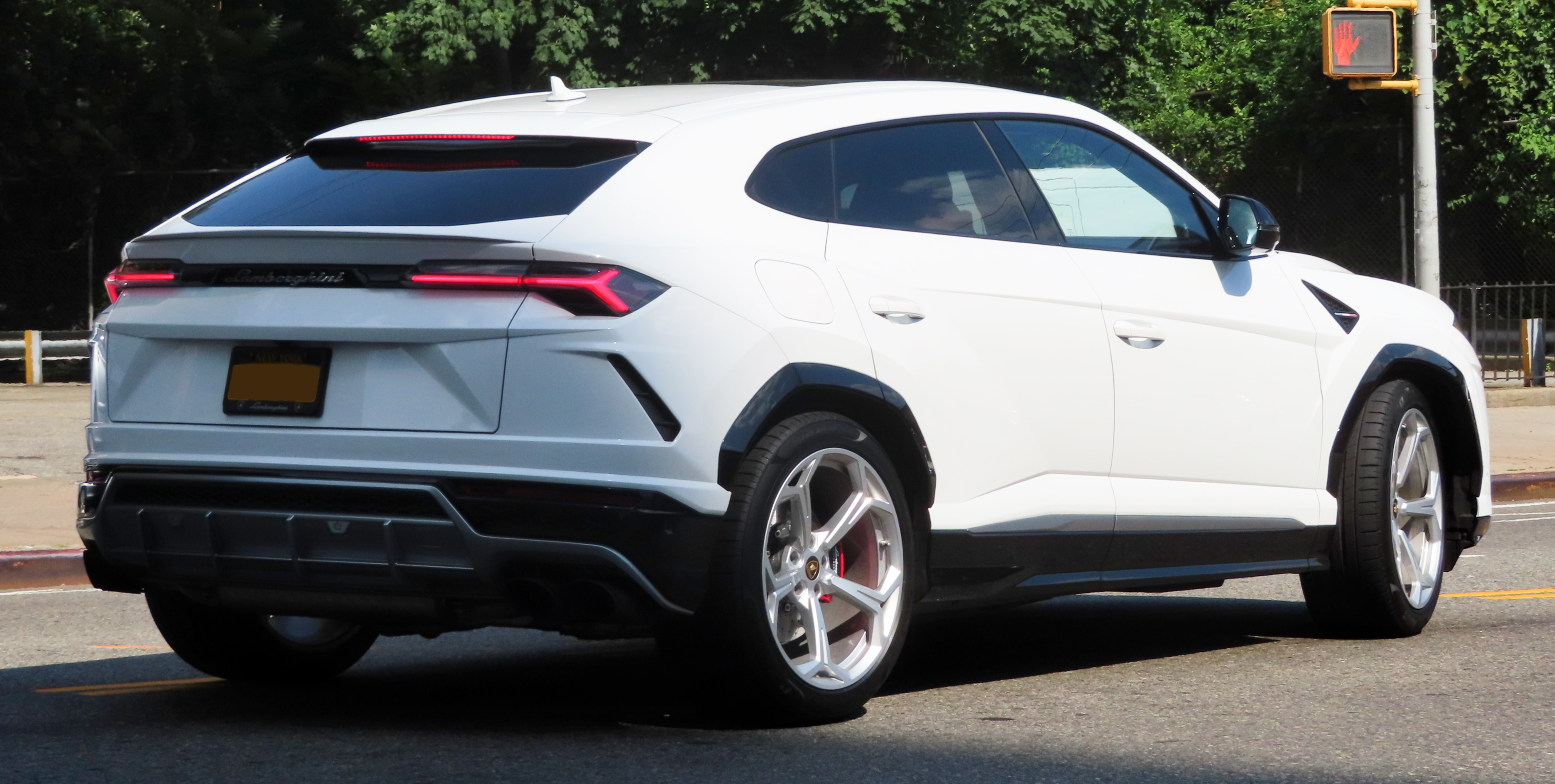 A 2019 Lamborghini Urus photographed in Flushing, Queens, New York, USA